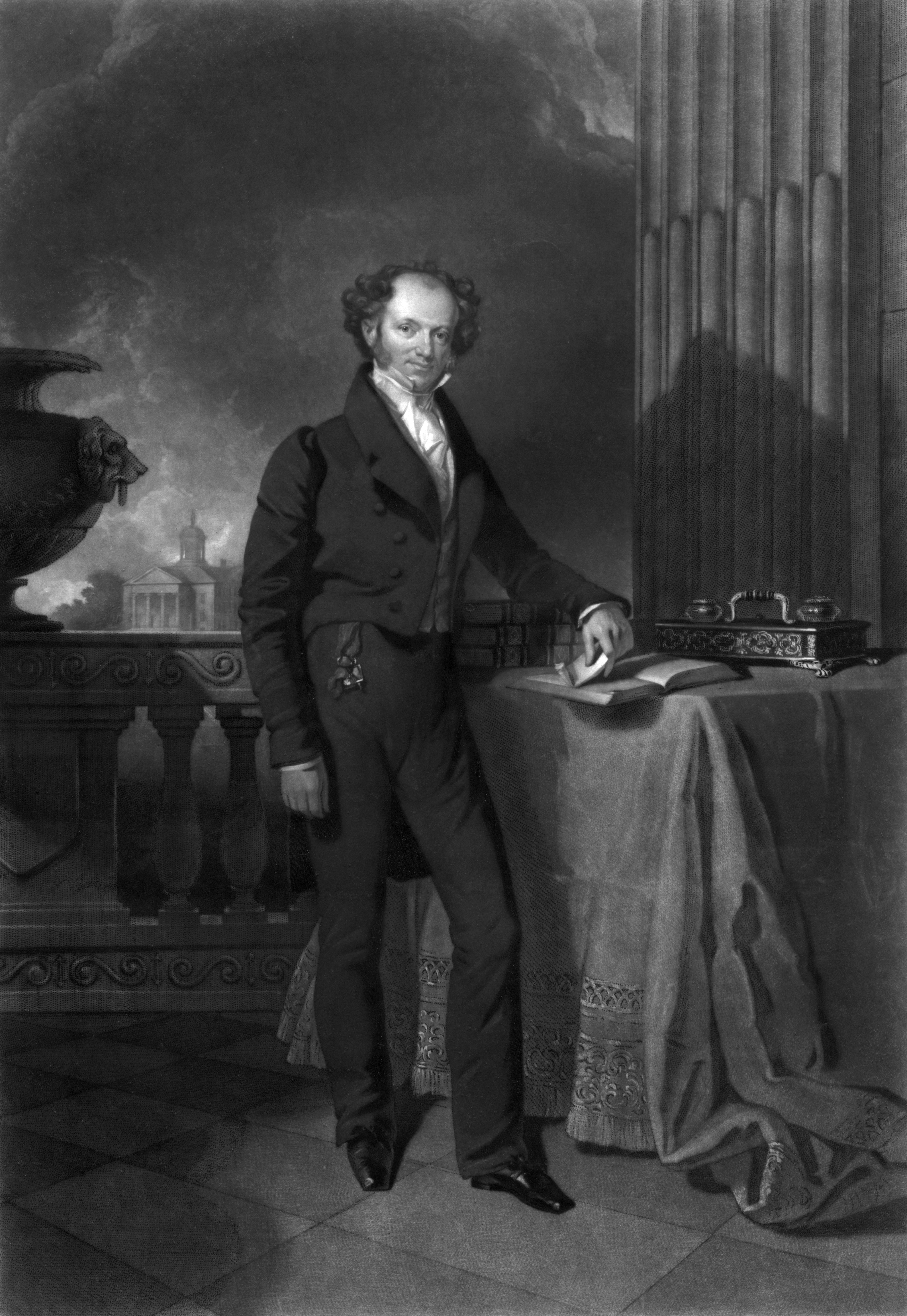 Martin Van Buren, president of the United States. Engraving by John Sartain, reproduction of 1839 painting by Henry Inman.